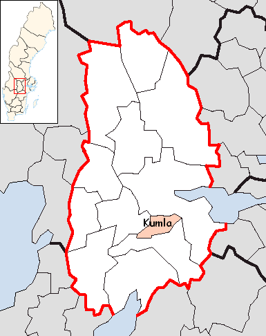 Kumla Municipality in Örebro County Designd by me, based on Image:Örebro County.png